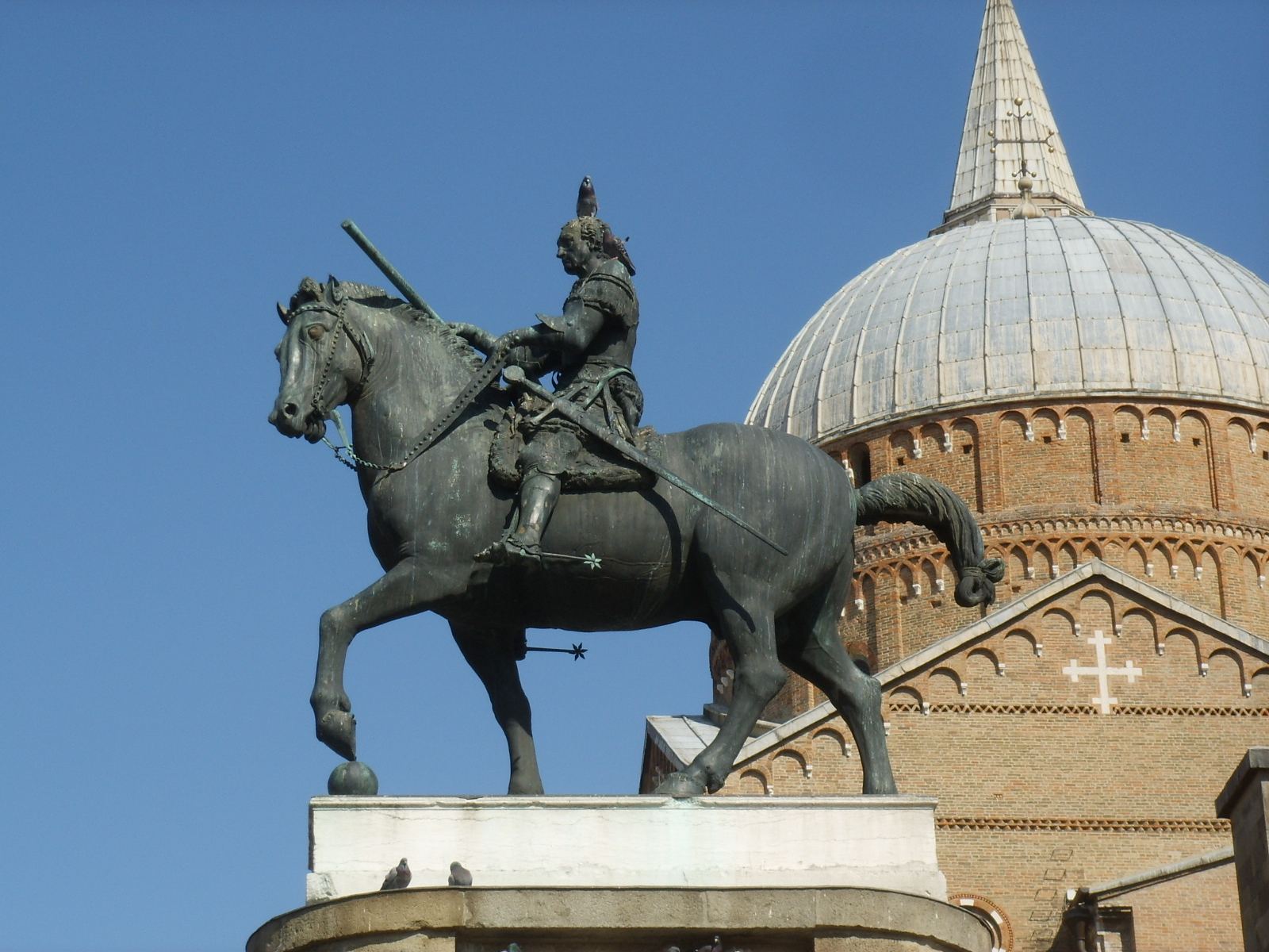 Equestrian statue of Gattamelata by Donatello, on Piazza del Santo (Padua)